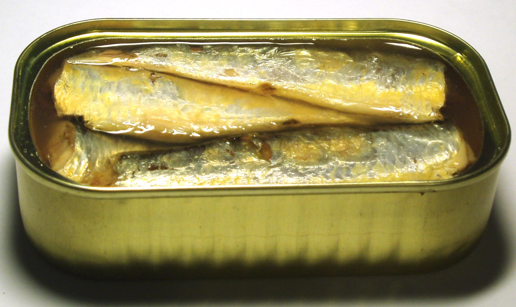 Canned sardines in salt water